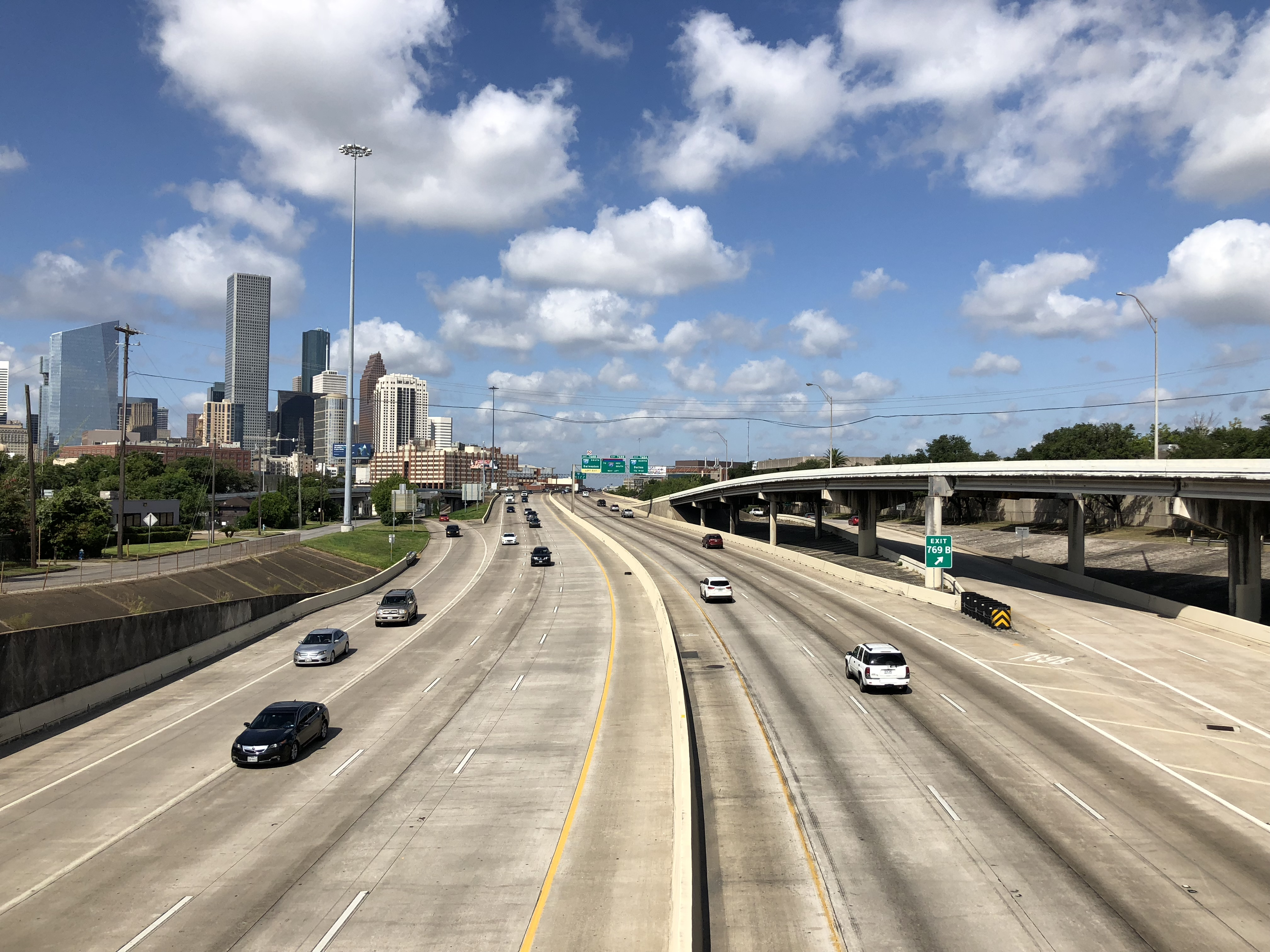 View west along Interstate 10 (Katy Freeway) from the overpass for McKee Street in Houston, Harris County, Texas